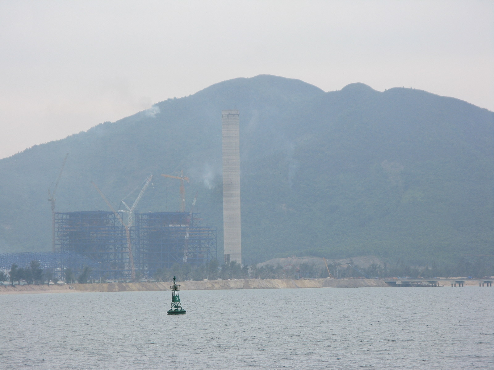 Wharf for Vung Ang Thermal Power Plant Cluster